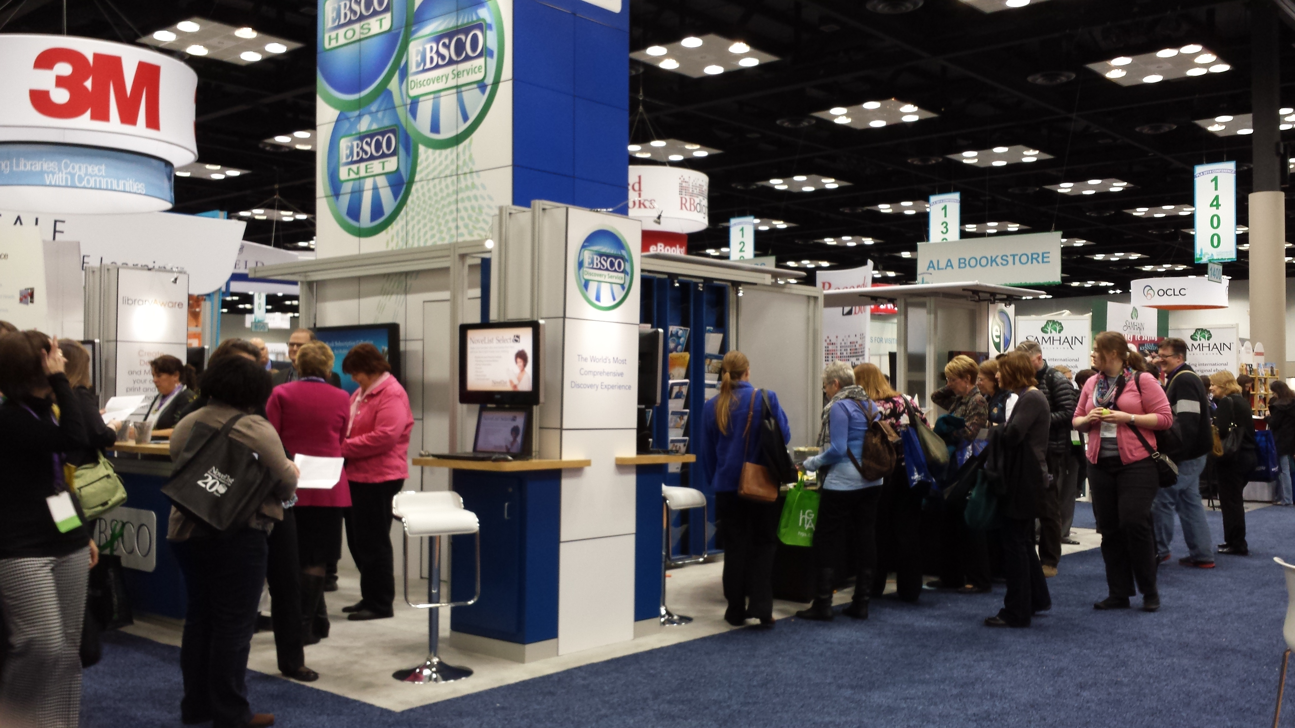 EBSCO Booth - PLA Conference 2014